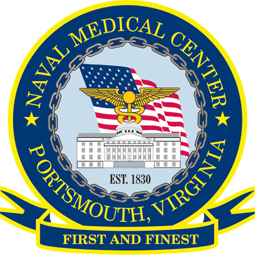 Logo of Naval Medical Center Portsmouth